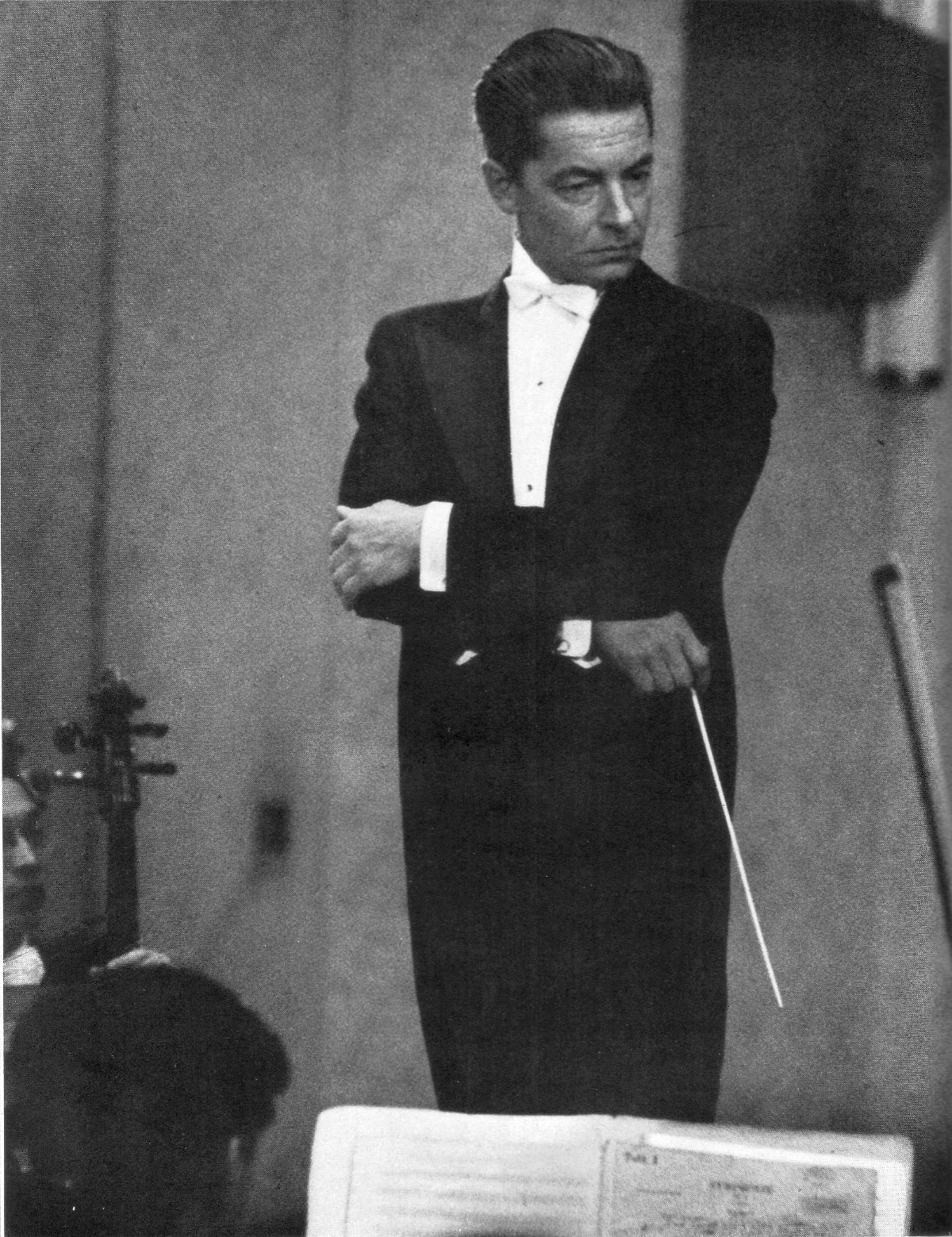 Herbert von Karajan Conducts in NHK Symphony Orchestra, Tokyo. taken in April 1954.